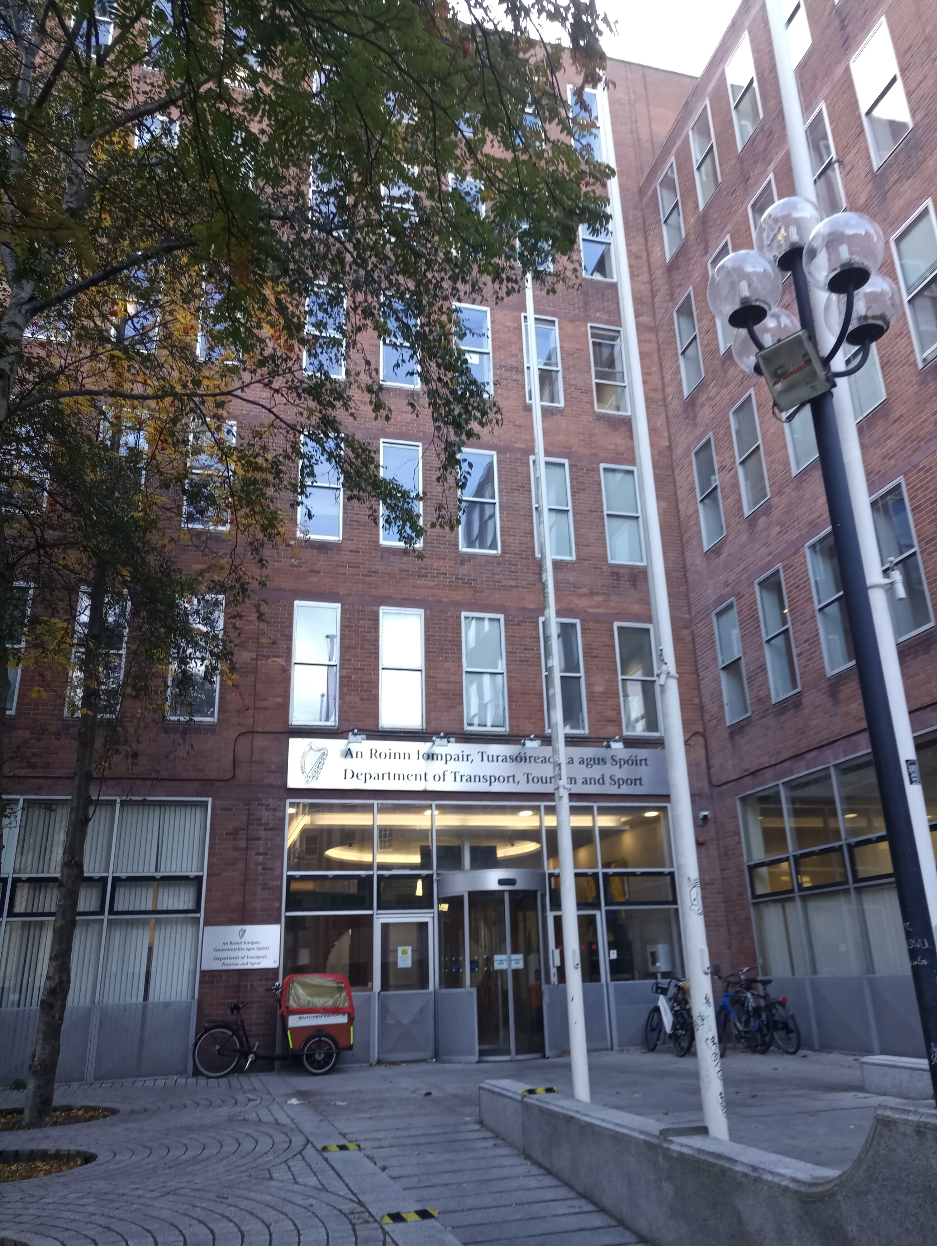 Department of Transport, Tourism and Sport, Ireland